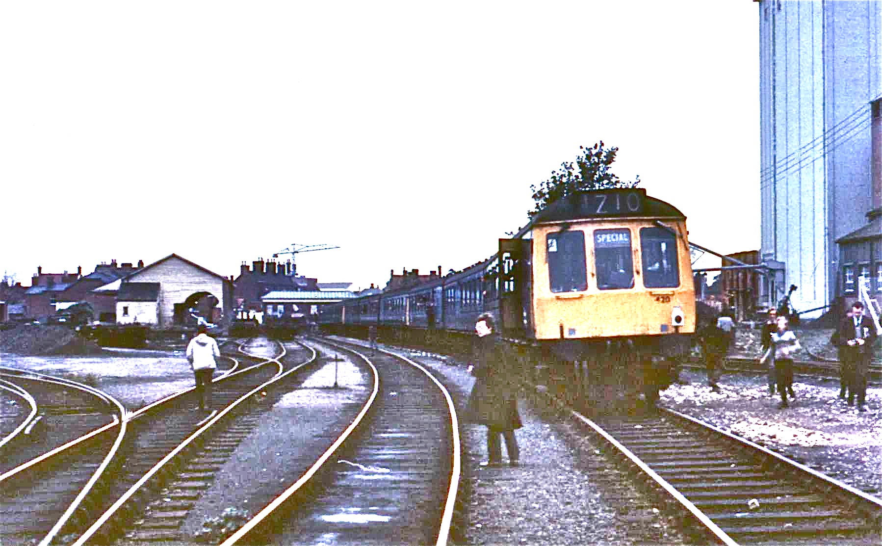 BR "Witney Wanderer" railtour at Abingdon railway station in 1970. The railtour was worked by Class 117 Pressed Steel 3-car DMU.